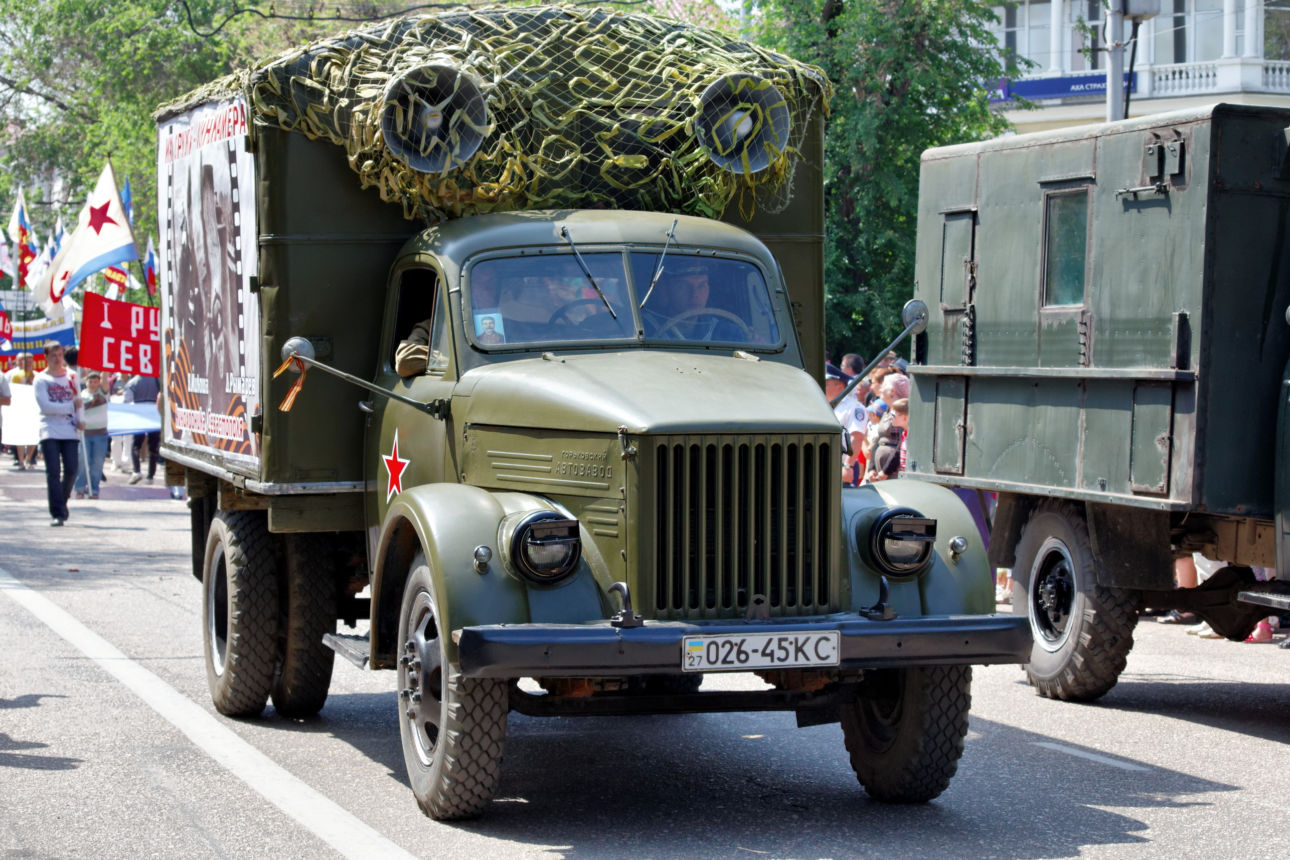 Sevastopol. Victory Day Parade (May 9, 2012)